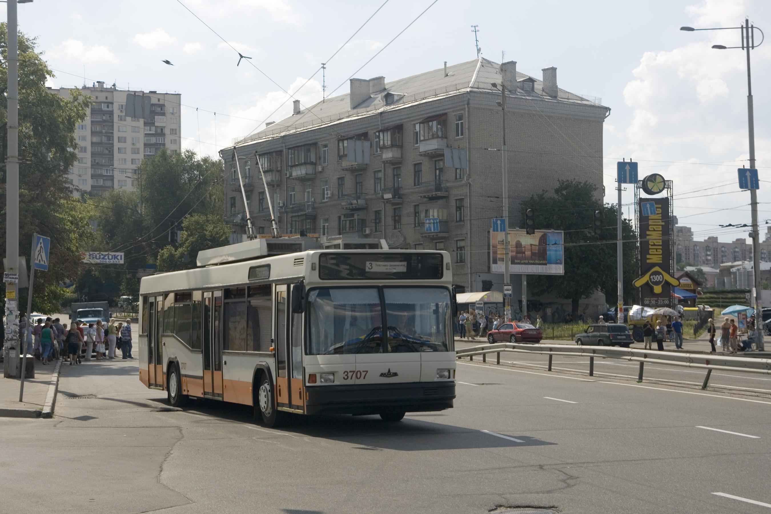 Trolleybus on Vasylia Lypkivskoho St in Kyiv